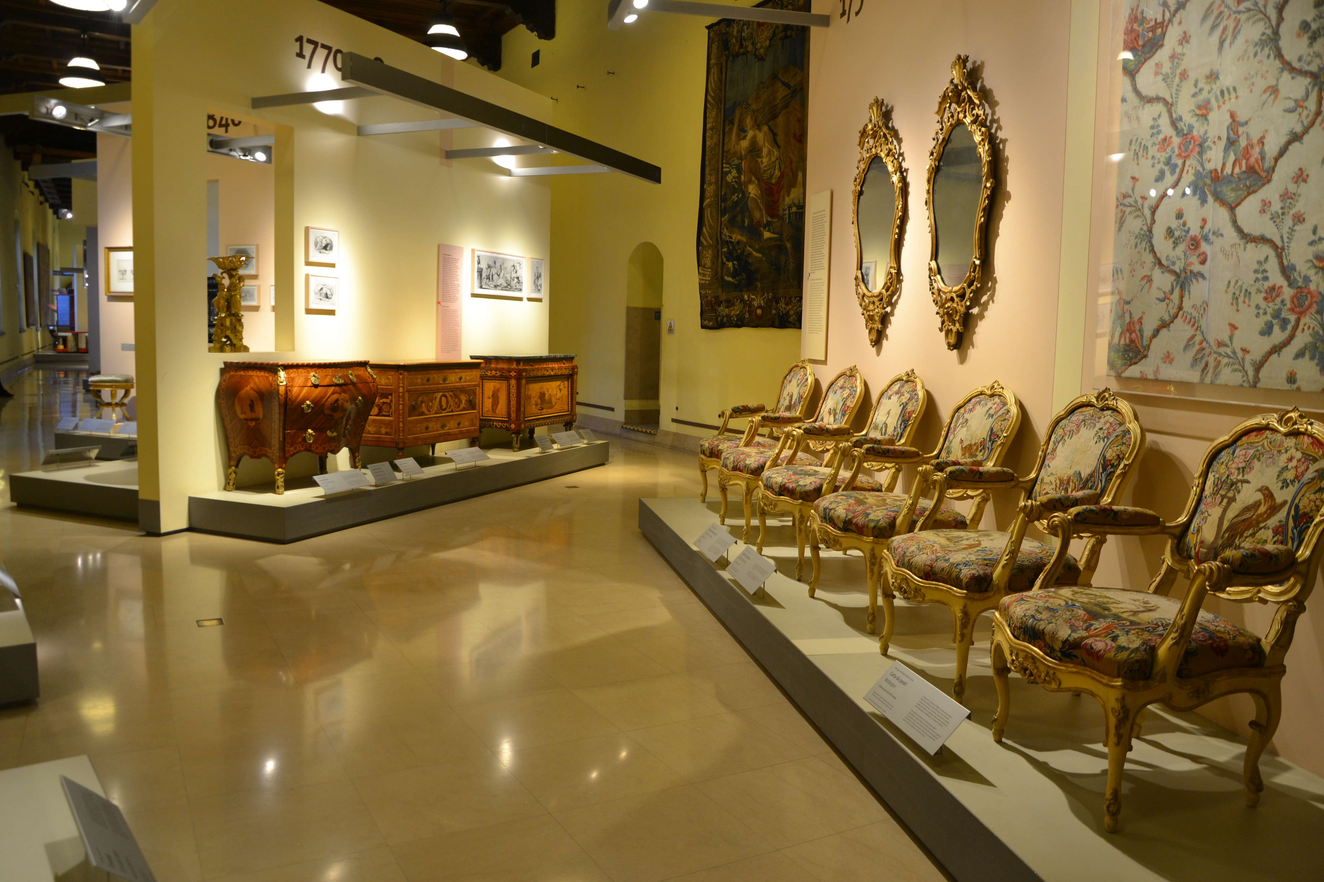 Furniture Museum (Milan), Sforza Castle Civic Museums